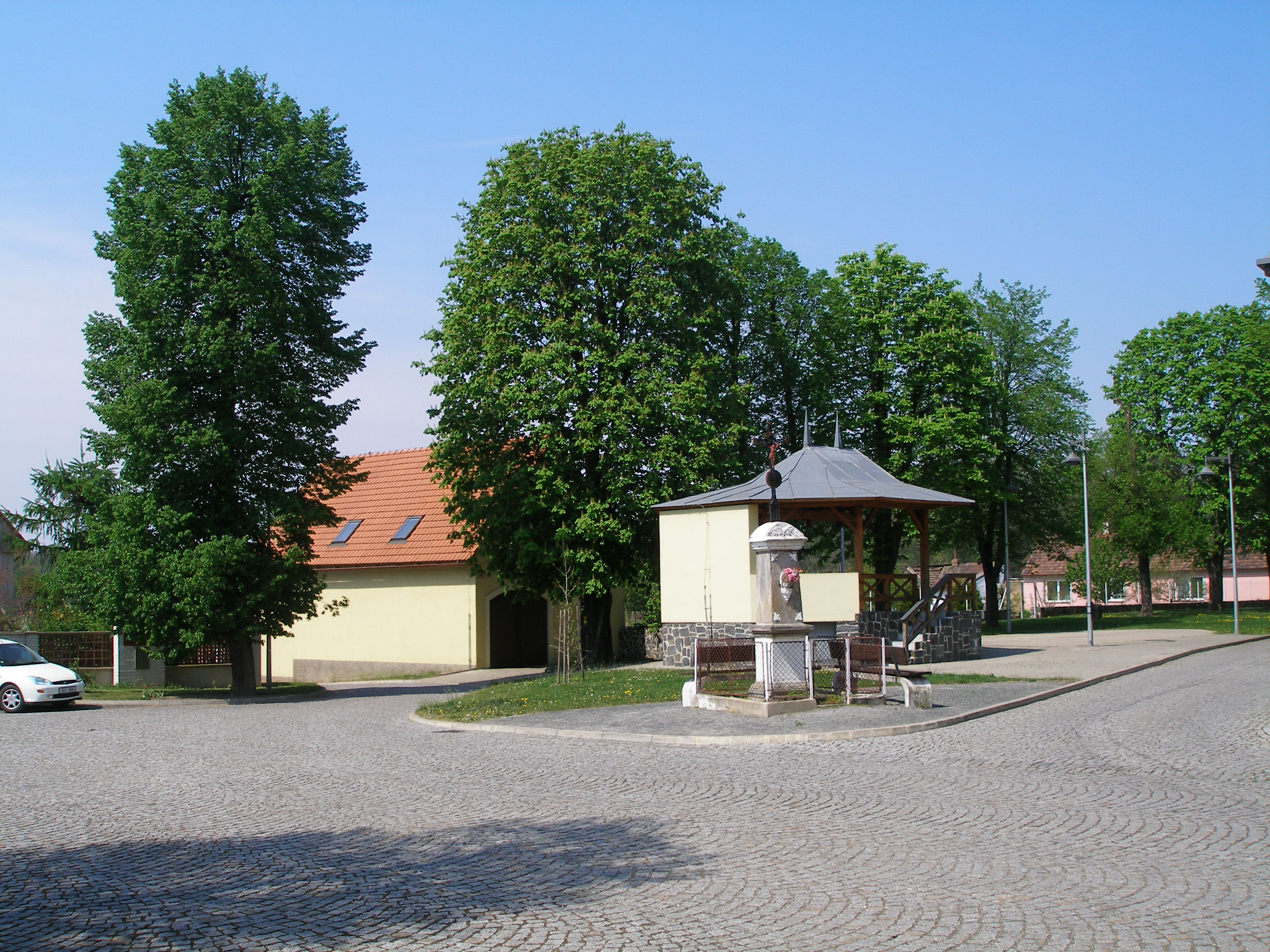 Village square in Dobříň.